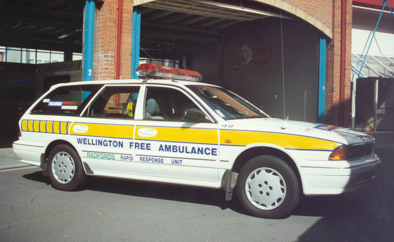 1994–1997 Mitsubishi V3000 Executive station wagon (Wellington Free Ambulance), photographed in New Zealand.